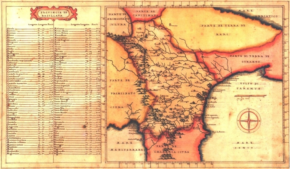 "Provincia de Basilicata" - Beginning of XVII century, map by Nicola Antonio Stigliola and Mario Cartaro, 1589-1595 - Regno di Napoli